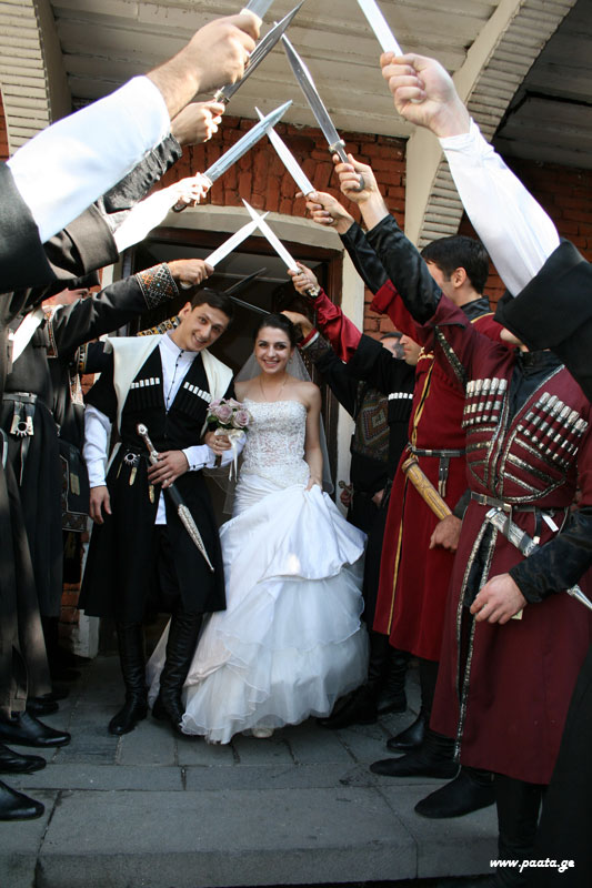 Traditional wedding ceremony in Georgia. Men are dressed in national "chokha".